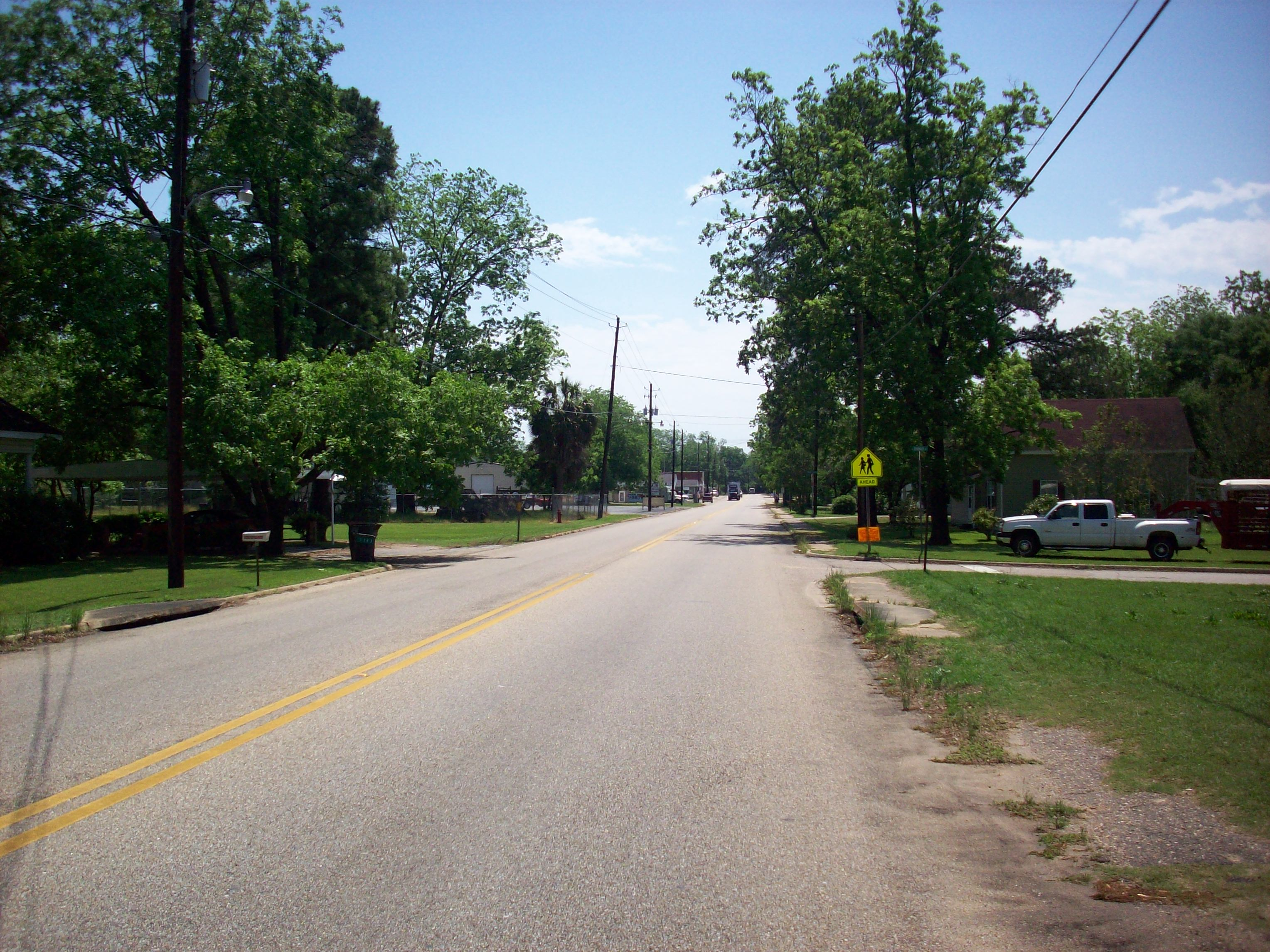 Main Street in Pinckard, Alabama, looking toward center of town